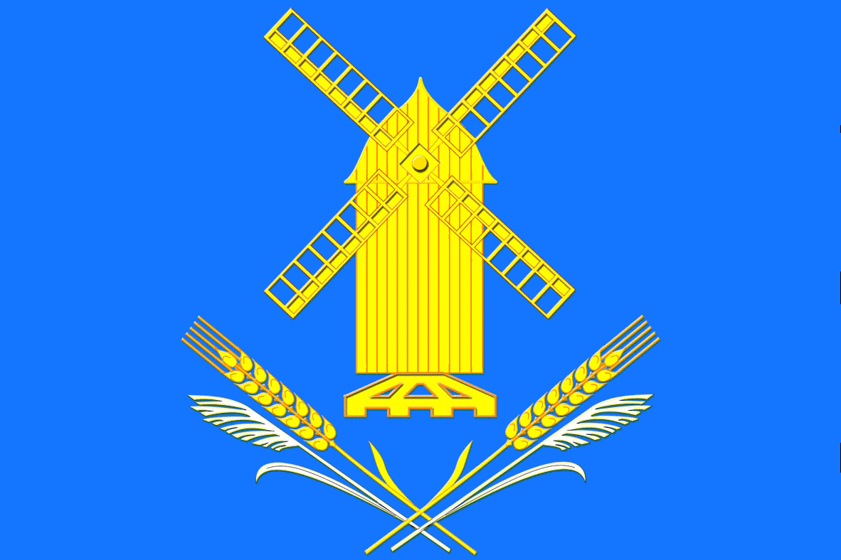 Flag of Kamyshevatskoe rural settlement, Krasnodar Territory, Russia